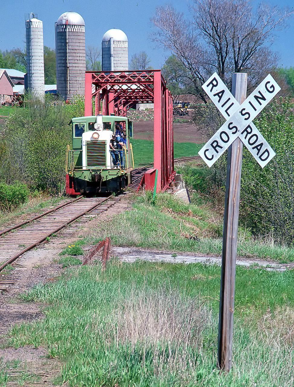 Lowville and Beaver River RR crossing the Black River near Lowville, NY May 1991. Scan from 35mm slide.